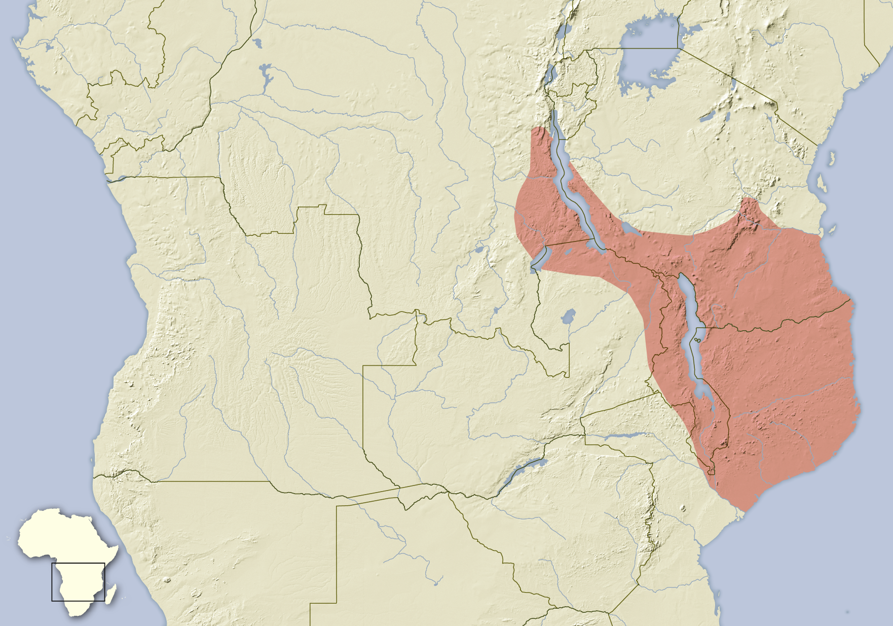 Distribution map of the checkered elephant shrew